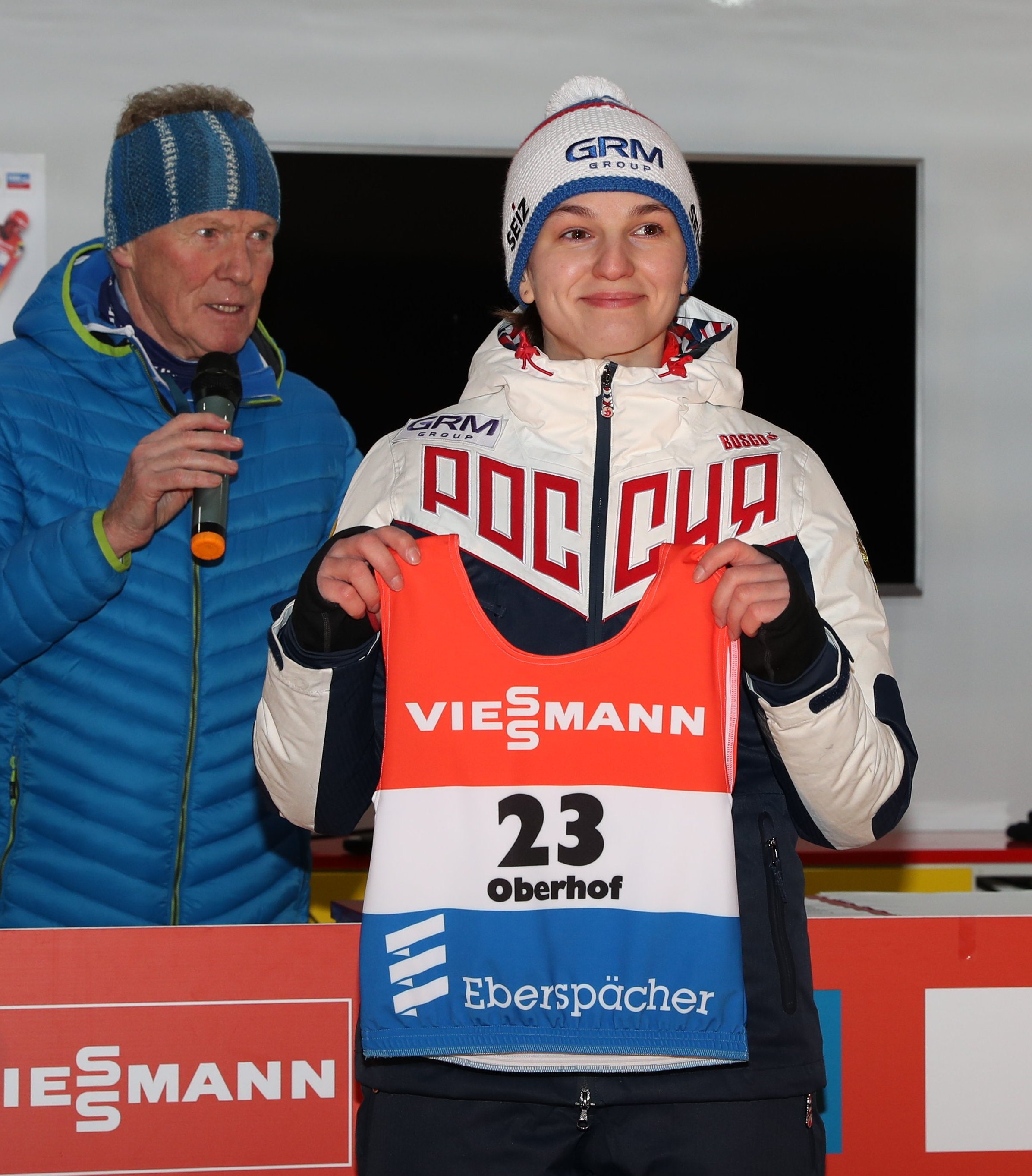 Drawing of starting numbers at the 2019/20 Oberhof Luge World Cup